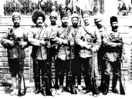 persian cosacks